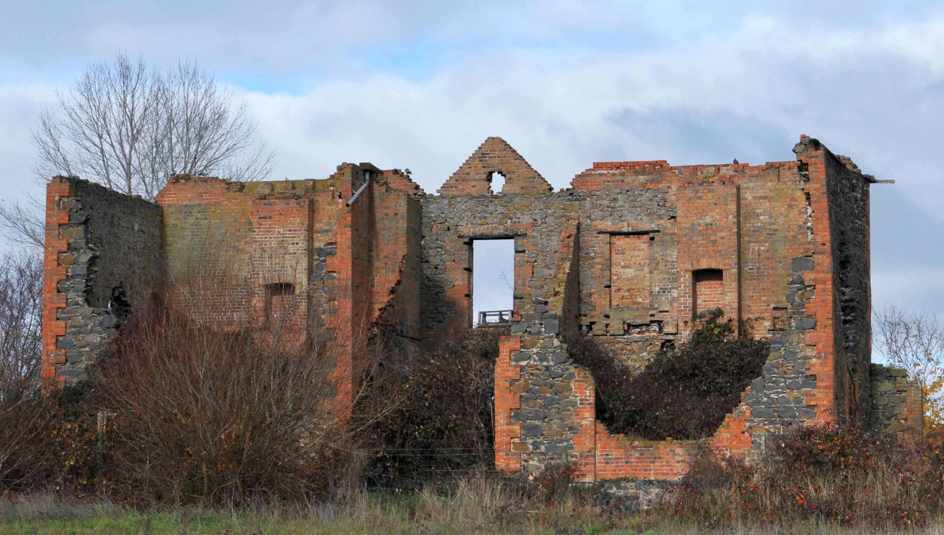 The ruined Archer's Folley in Carrick, Tasmania